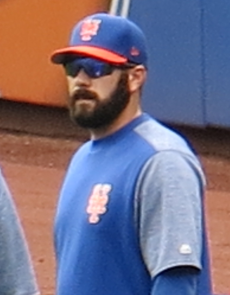 Chase Bradford on July 15, 2017